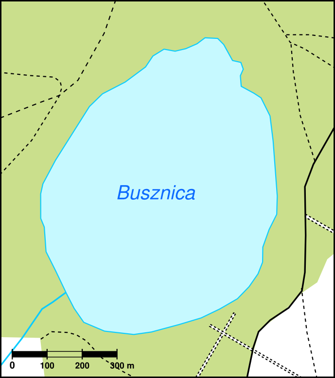 Map of Busznica lake in Poland (based on .pl).